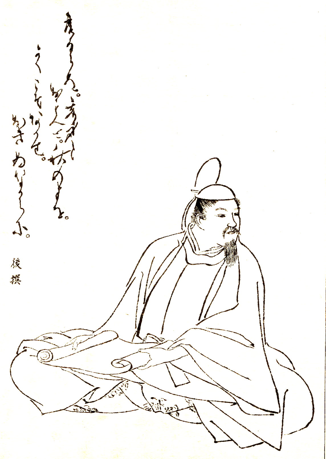 Fujiwara no Morosuke (藤原 師輔), also known as Kujo Morosuke, was a Japanese noble of the Heian period.This picture was drawn by Kikuchi Yosai（菊池容斎） who was a painter in Japan.